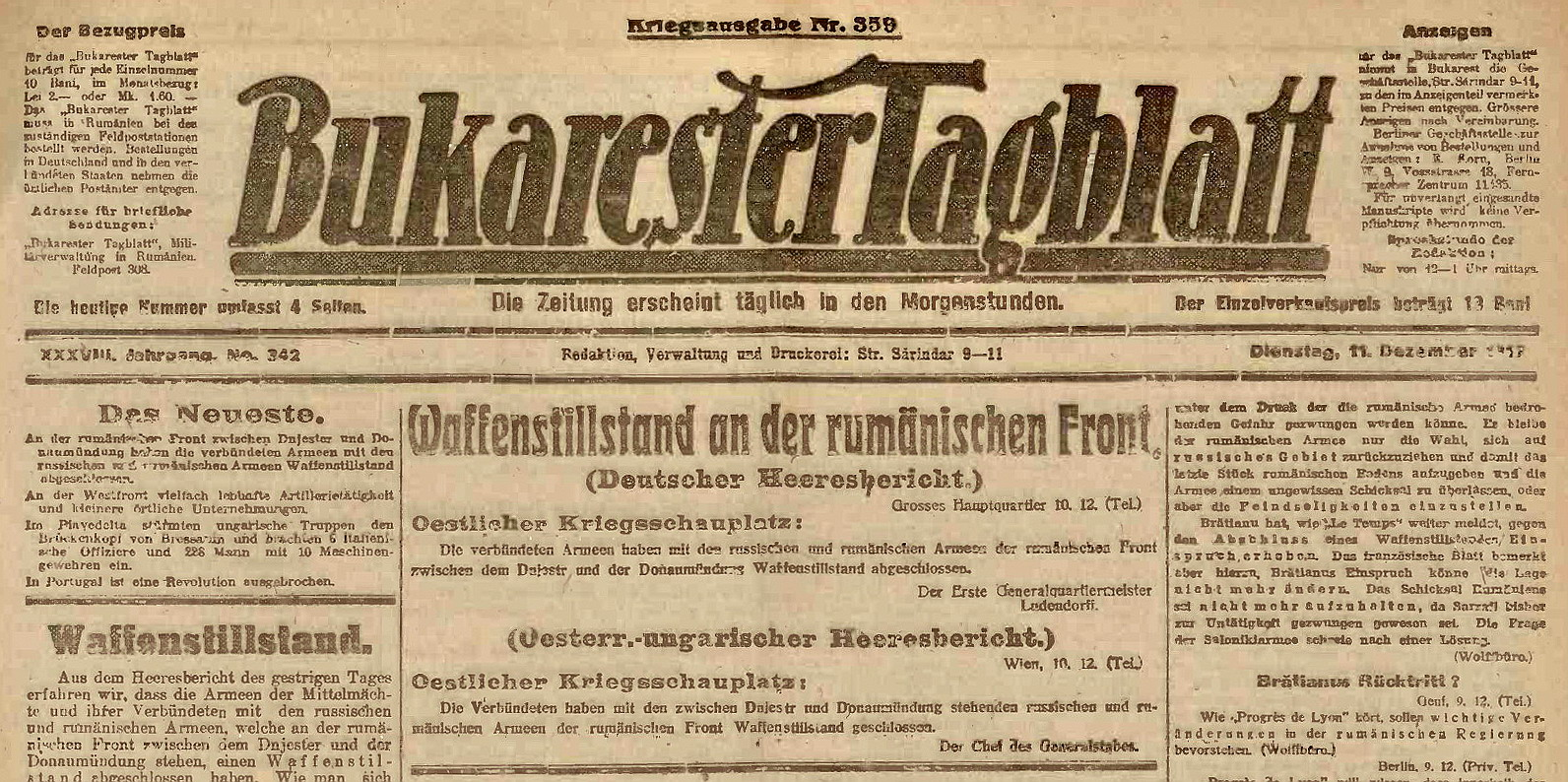 Announcement of the armistice concluded in Focsani, on 9 December 1917 Romani čhib: Anunţ privind încheierea armistiţiului de la Focşani din 26 noiembrie/9 decembrie 1917